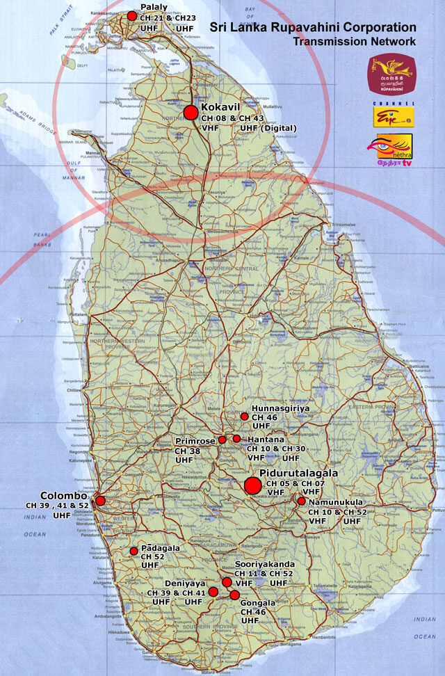 For the template used to request speedy deletion, see Template:SD سنڌي: විකාශන වපසරිය